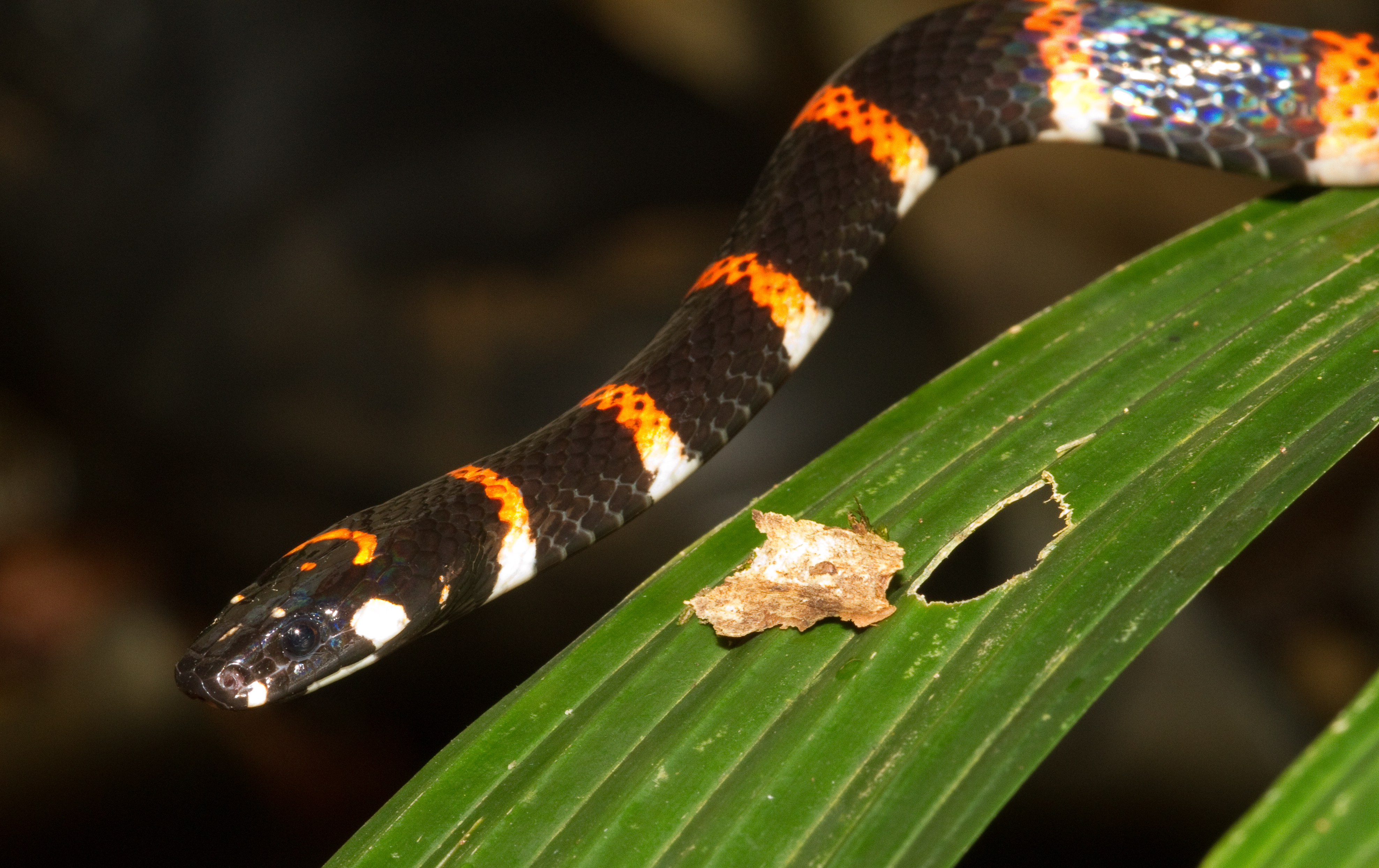 Pliocercus euryzonus, Panama